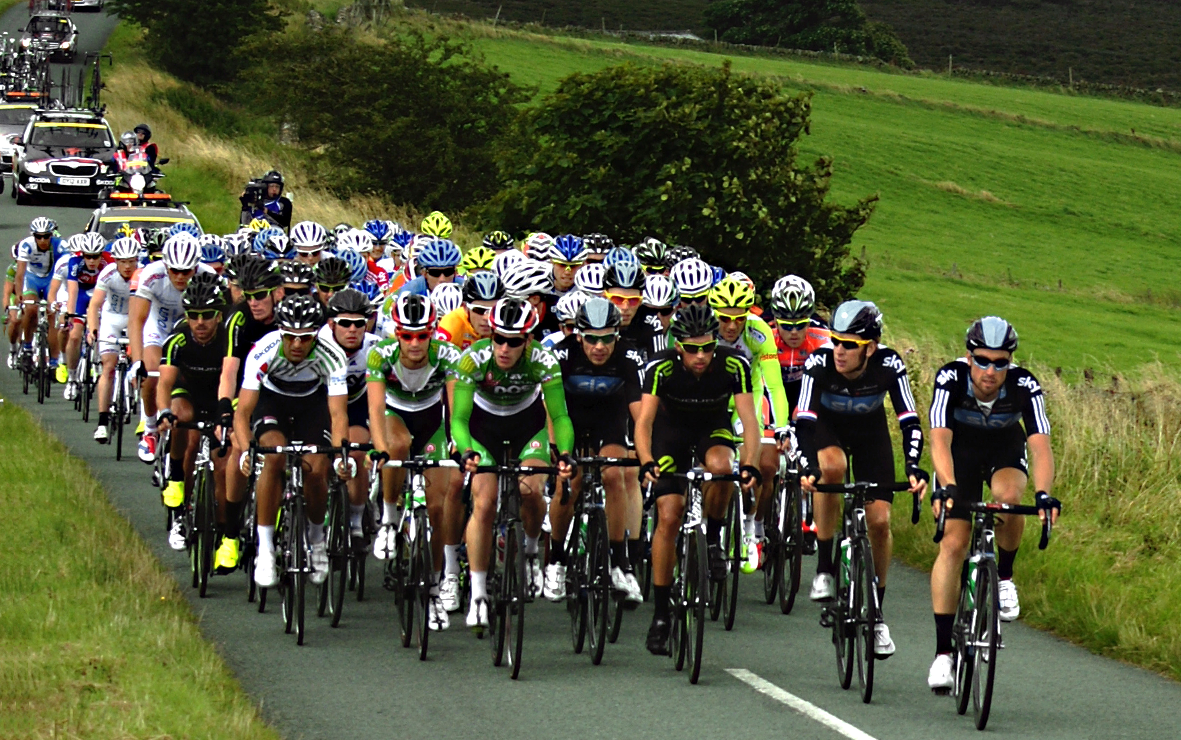 Stage 2 of the Tour of Britain race from Nottingham to Knowlsley safari park. This was taken on the Staffordshire Moorlands, the race had just passed through the village of Warslow.